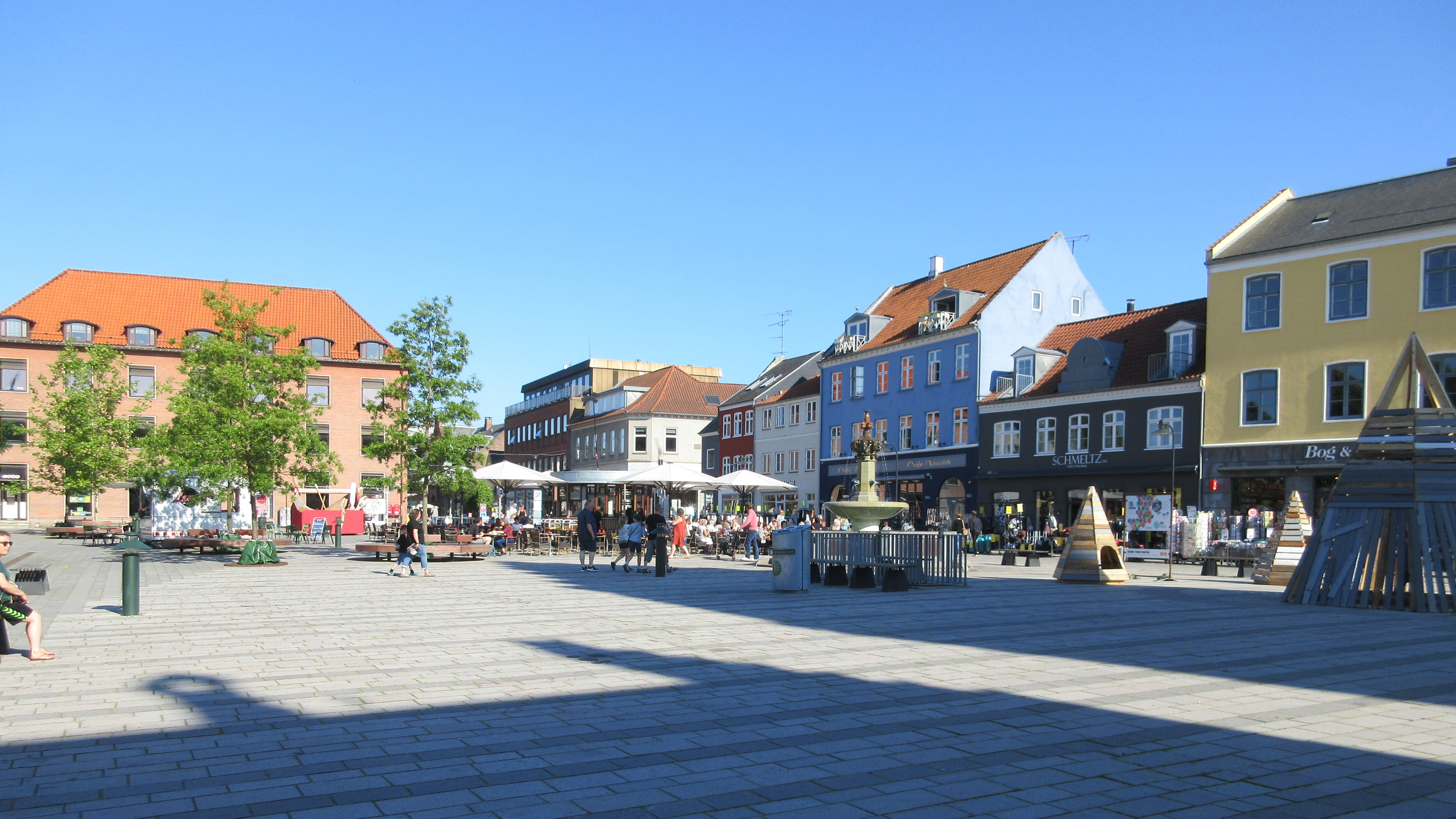 Stændertorvet in Roskilde, Denmark